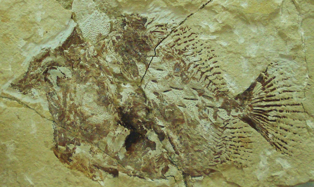 Fossil of Trewavasia carinata, an extinct fish